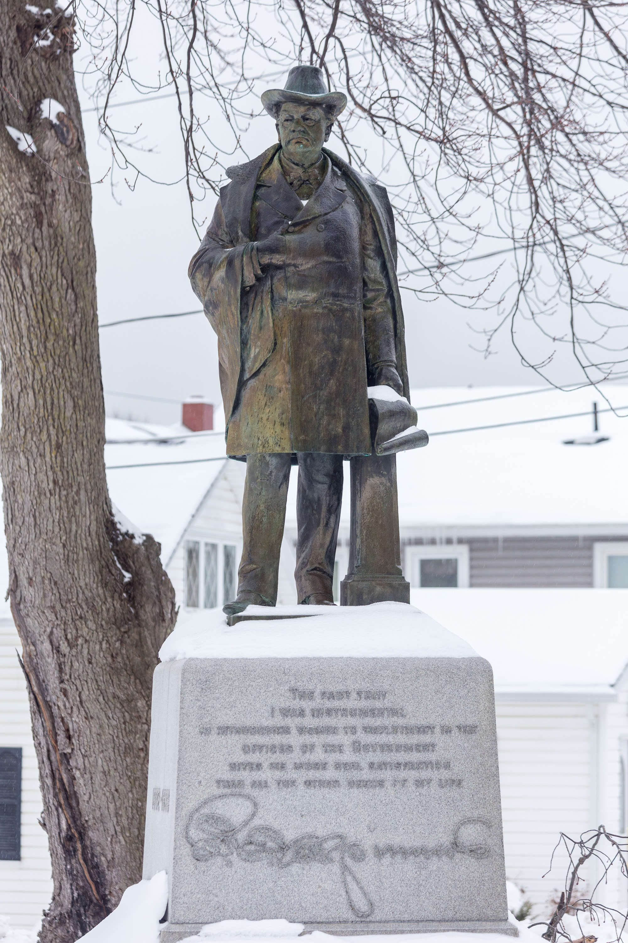 Statue of General Francis E. Spinner, showing his famous signature which appeared on the Civil War greenbacks. Myers Park, Herkimer New York. Unveiled on June 29, 1909 by the Daughters of the American Revolution. The height of the statue is 7 feet 6 inches, and cost "over 20,000". Inscription reads: "The fact that I was instrumental in introducing women to employment in the offices of the government gives me more real satisfaction than all the other deeds of my life." Reference: Also